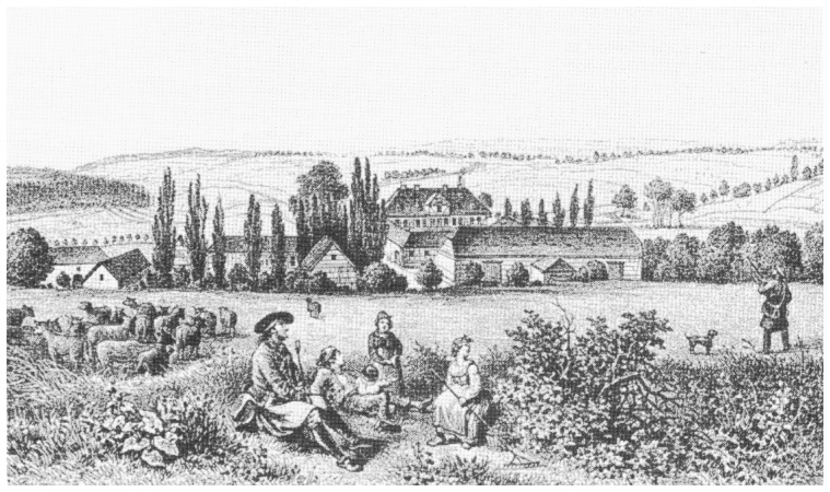 A view of Hütscheroda.